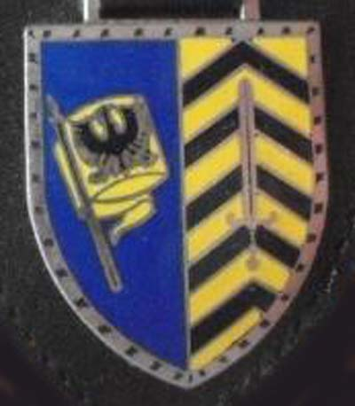 Support Command 5